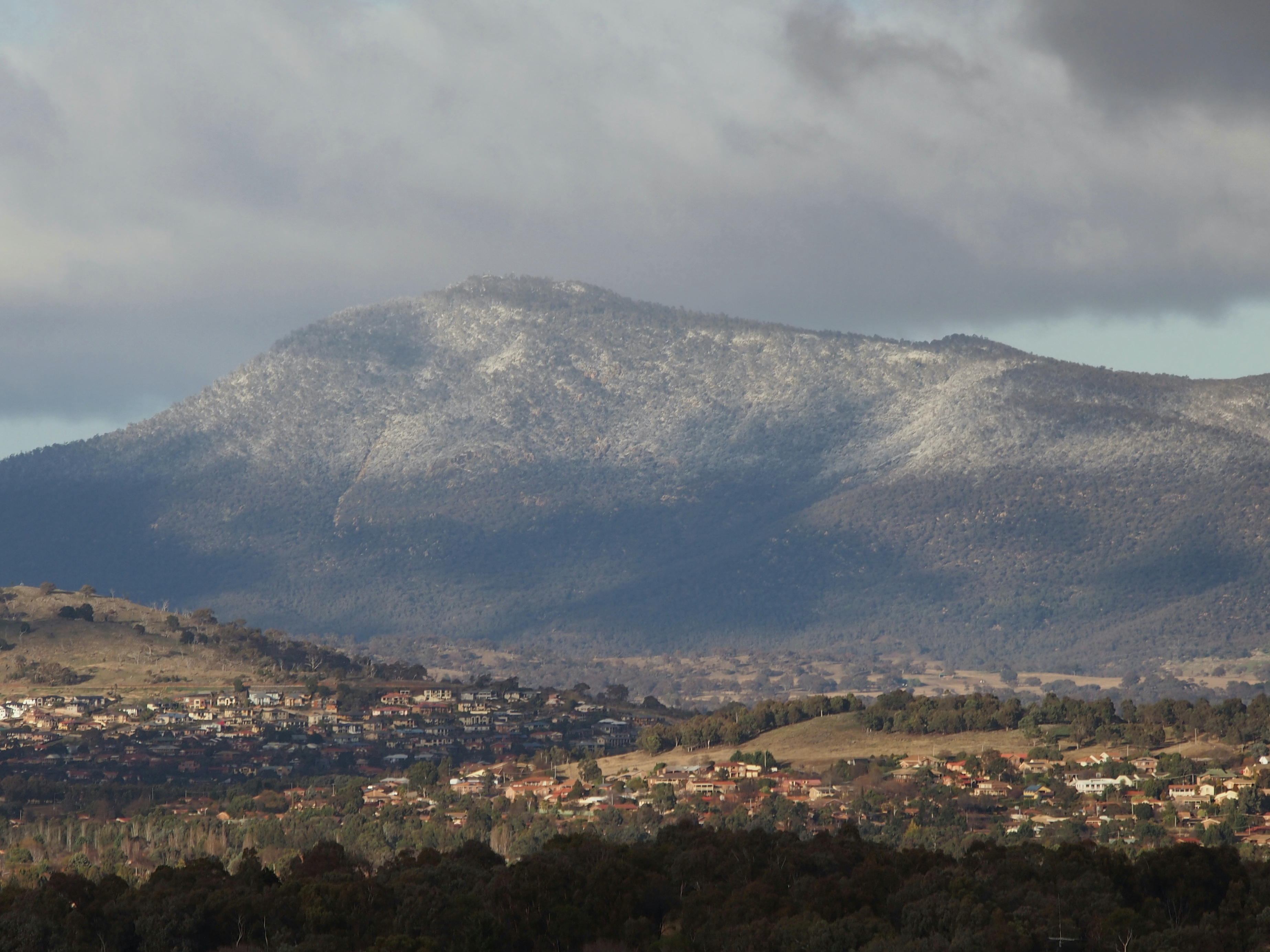 Snow on Mount Tennent during July 2013